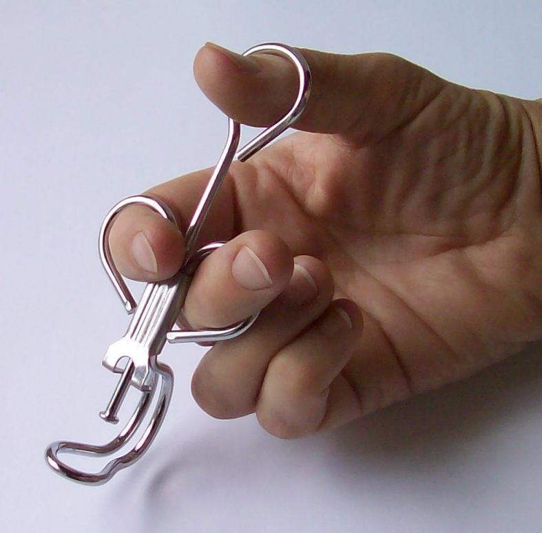 Cherry pitter (stoner) in hand